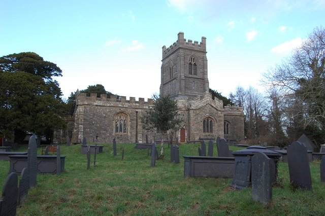 Llandegai Church